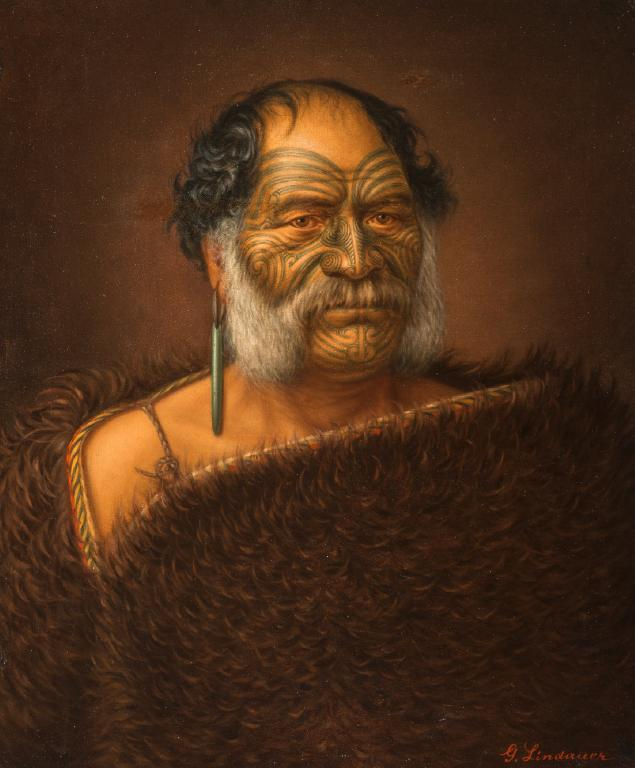 Hōri Kīngi Te Ānaua a finely woven kahukiwi or kiwi-cloak